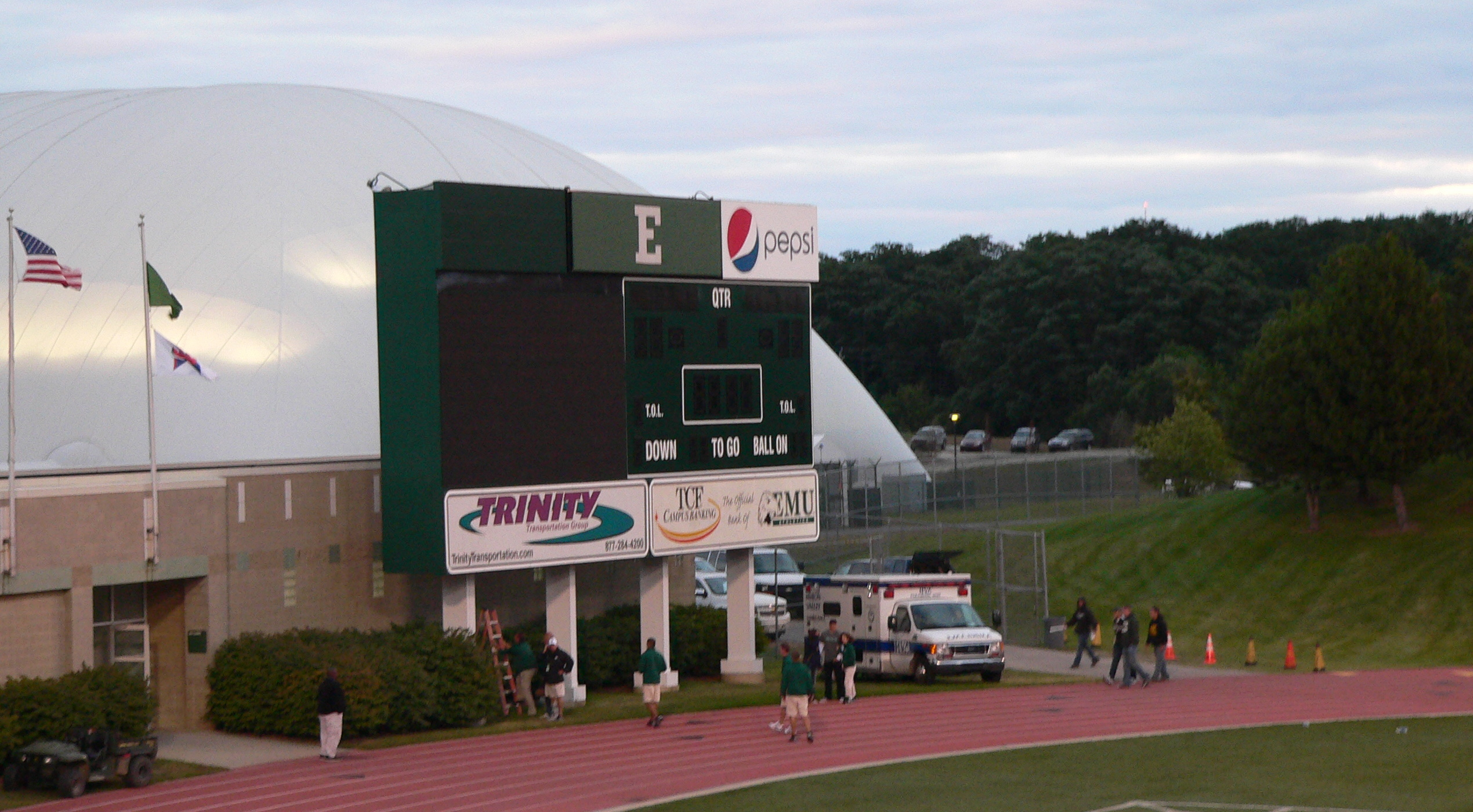 The lights on the west (pressbox) side of the stadium, and the new scoreboard went dark during the second quarter of the EMU v. Army football game at Rynearson Stadium.